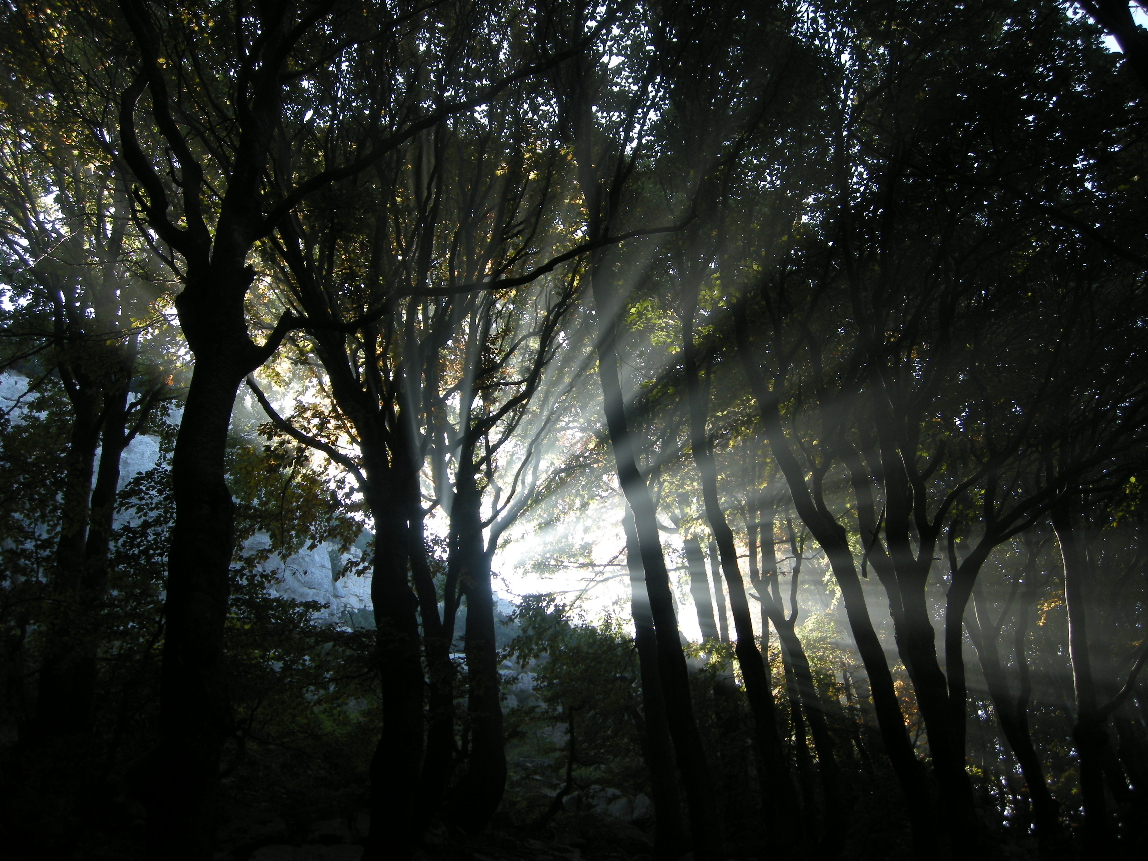 NP07 National Park Risnjak: Taken on the way towards the Risnjak mountain hut